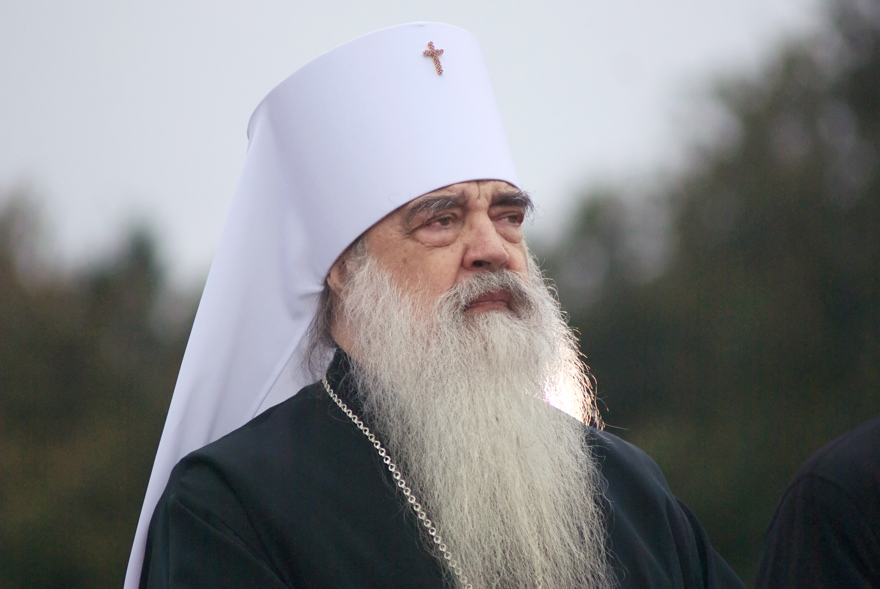 Filaret, Metropolitan of Minsk and Slutsk